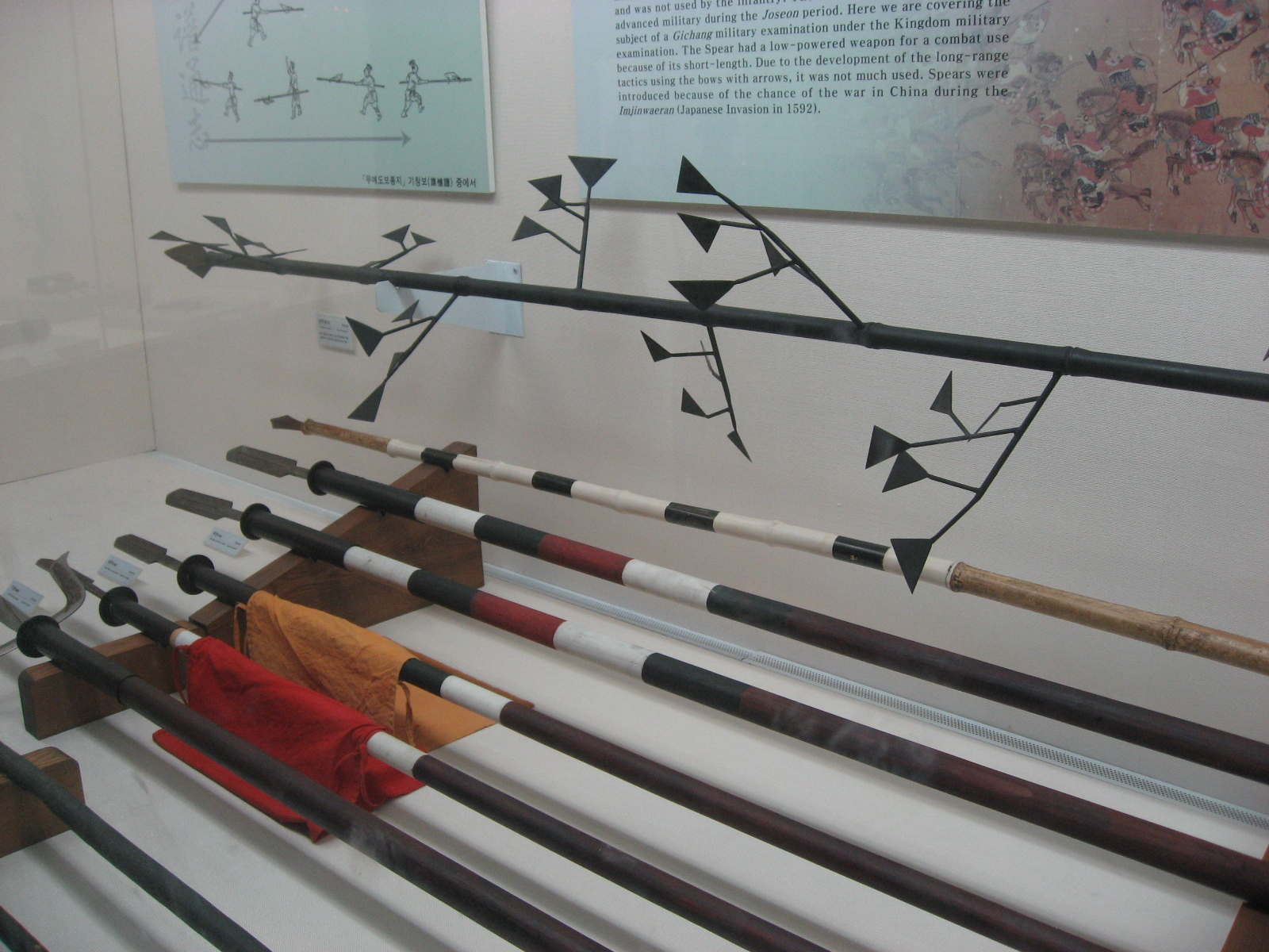 Korean spears.